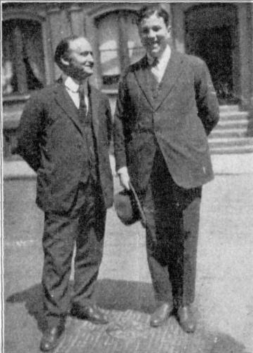 The magician Harry Houdini with the fraudulent psychic Joaquin María Argamasilla.